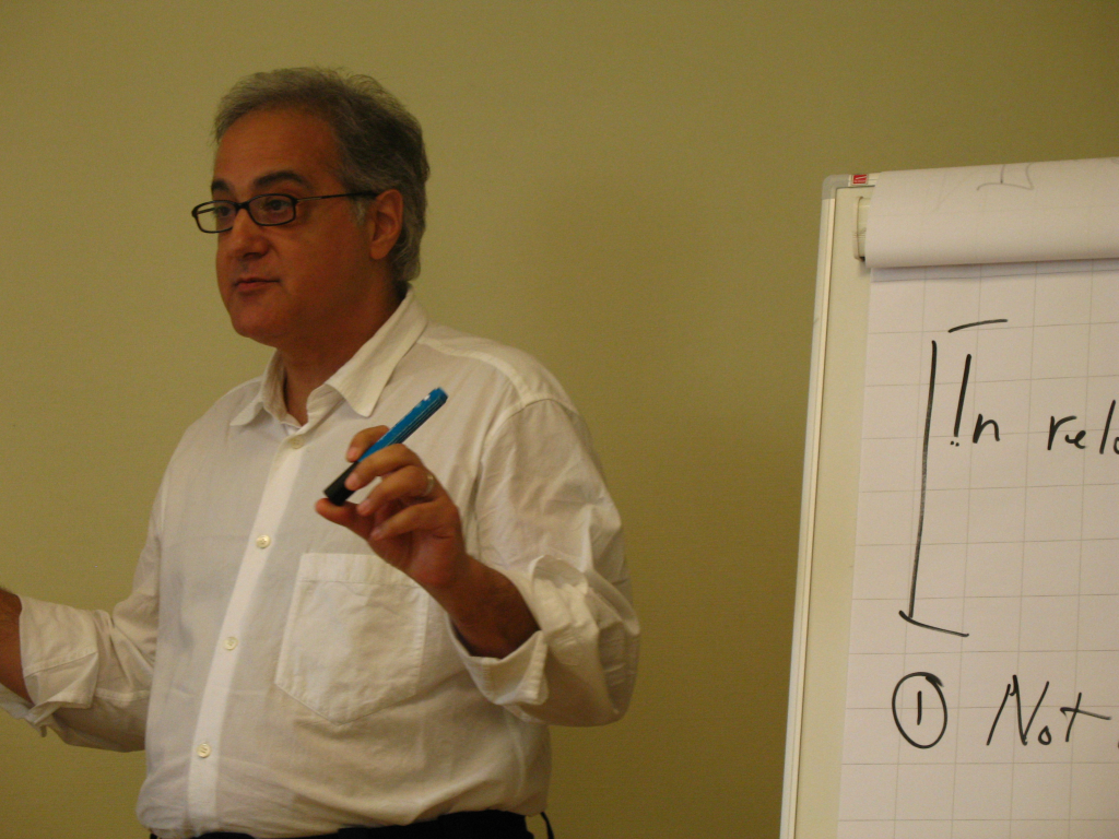 Paul Boghossian giving the Gottlob Frege Lectures in Theoretical Philosophy 2008 in Tartu, Estonia.